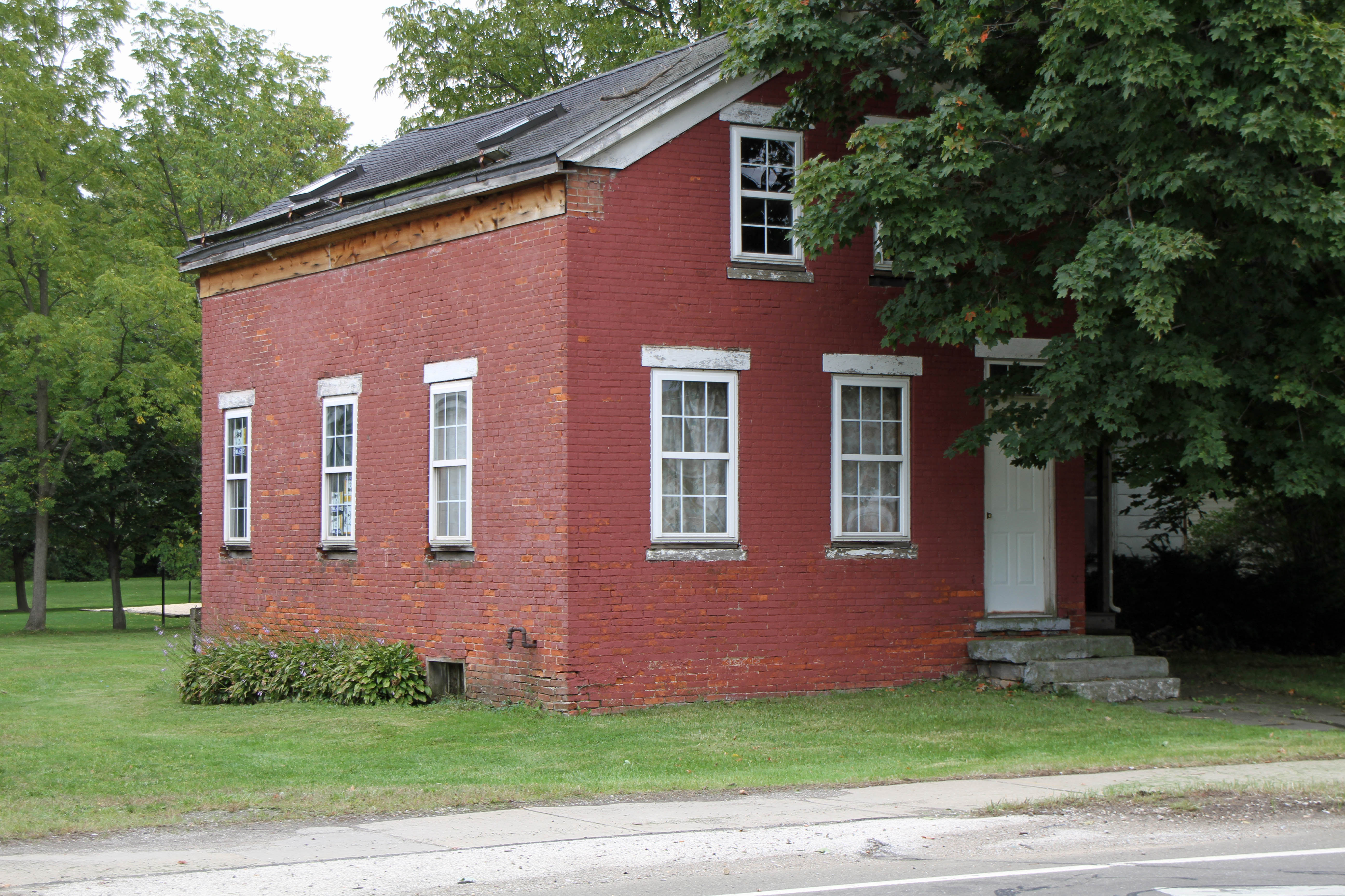 Brick Vernacular House No. 1